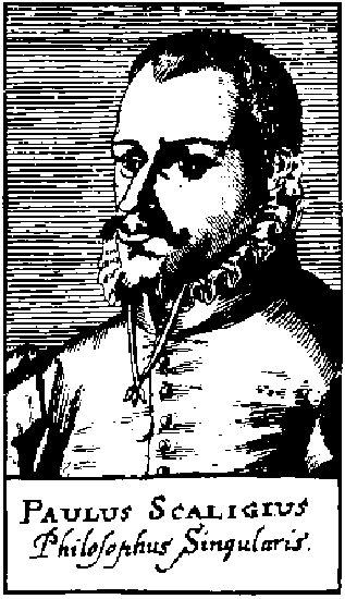 Renaissance Encyclopedist Stanislav Pavao Skalić, also Paulus Scalichius [Scaligius] de Lika, Paul Skalich, „Principe de la Scala“, „Count of Hun and Lycka“, „Markgraf von Verona“.